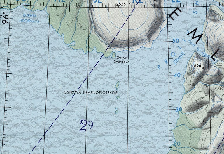 Krasnoflotskiye Islands. Section of 1:1,000,000 scale Operational Navigation Chart, Sheet B-3, 2nd edition.